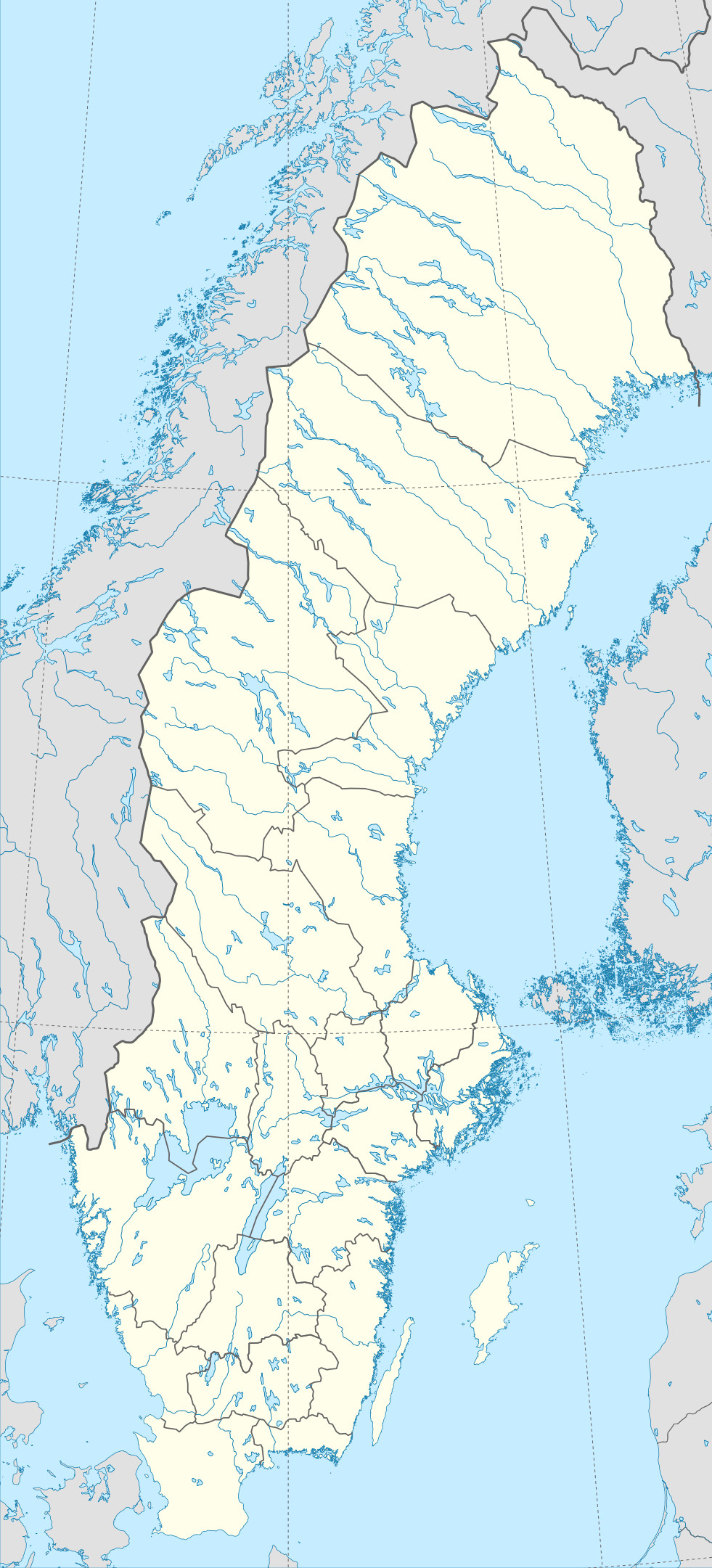 Sweden location map with Lambert conformal conic projection projection parameters : lon_0=15 lat_1=55 lat_2=70 lat_0=62.5 map limits: minx=-293328.424 maxx=431222.998 miny=-819642.953 maxy=775613.165 approximate projection formula x=1588.925/(tan(0.785398+ {2 }*0.0087266))^0.8896*sin(0.0155265*( {3 }−15))+40.5031 y=720.67724/(tan(0.785398+ {2 }*0.0087266))^0.8896*cos(0.0155265*( {3 }−15))−157.39943